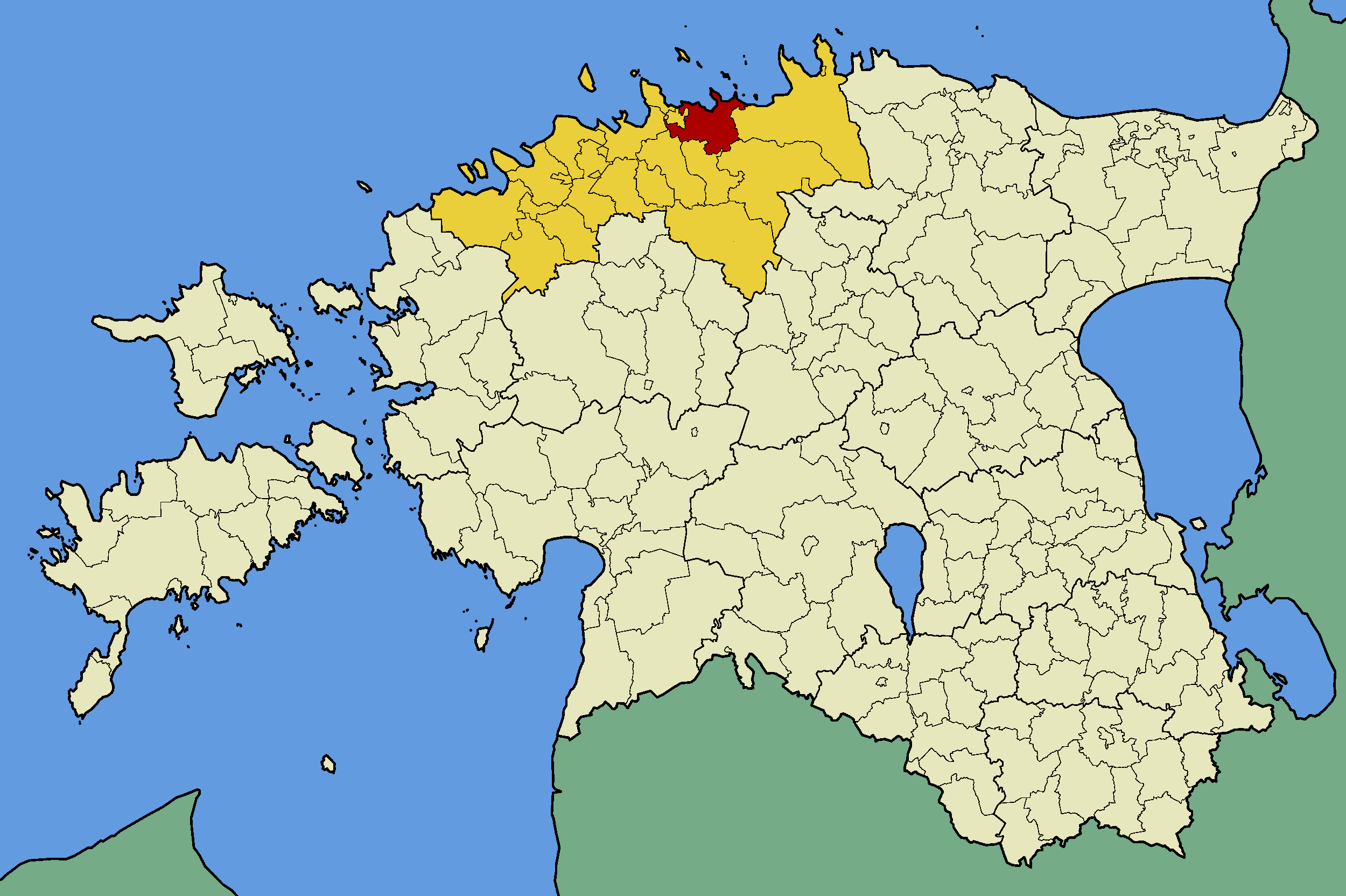 Map of Estonia with borders of municipalities (parishes). Harju county and Jõelähtme municipality (parish) emphasized.